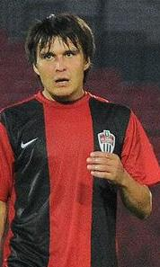 Russian soccer player Denis Klopkov in 2010